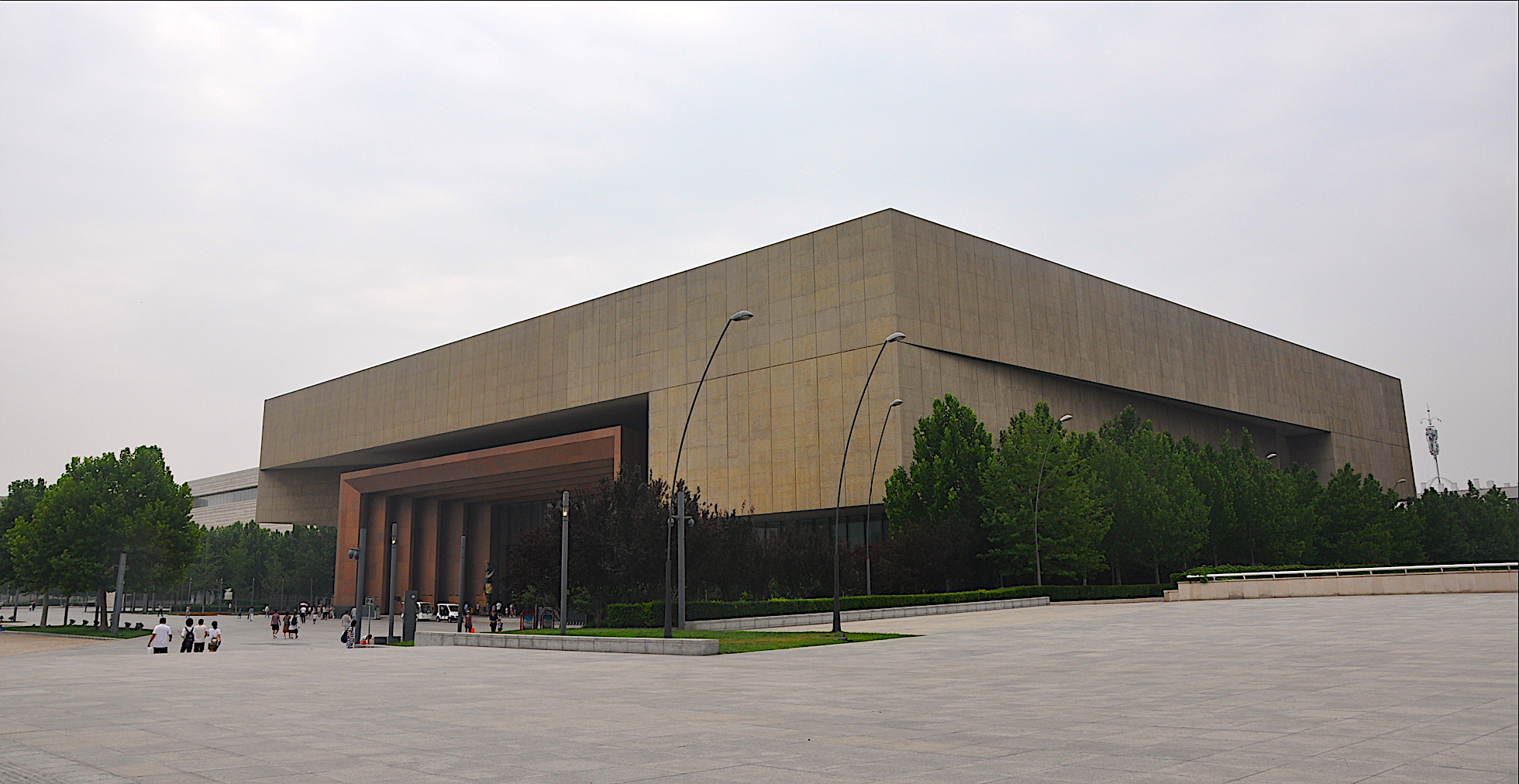 Tianjin museum